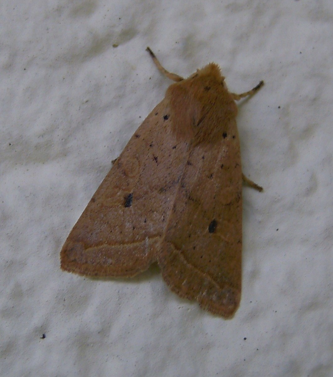 Agrochola macilenta, Frankfurt-Main Germany